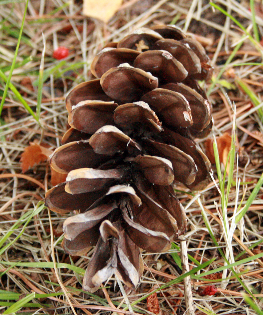 Macedonian Pine Pinus peuce cone. Cultivated, Luleå, Sweden.